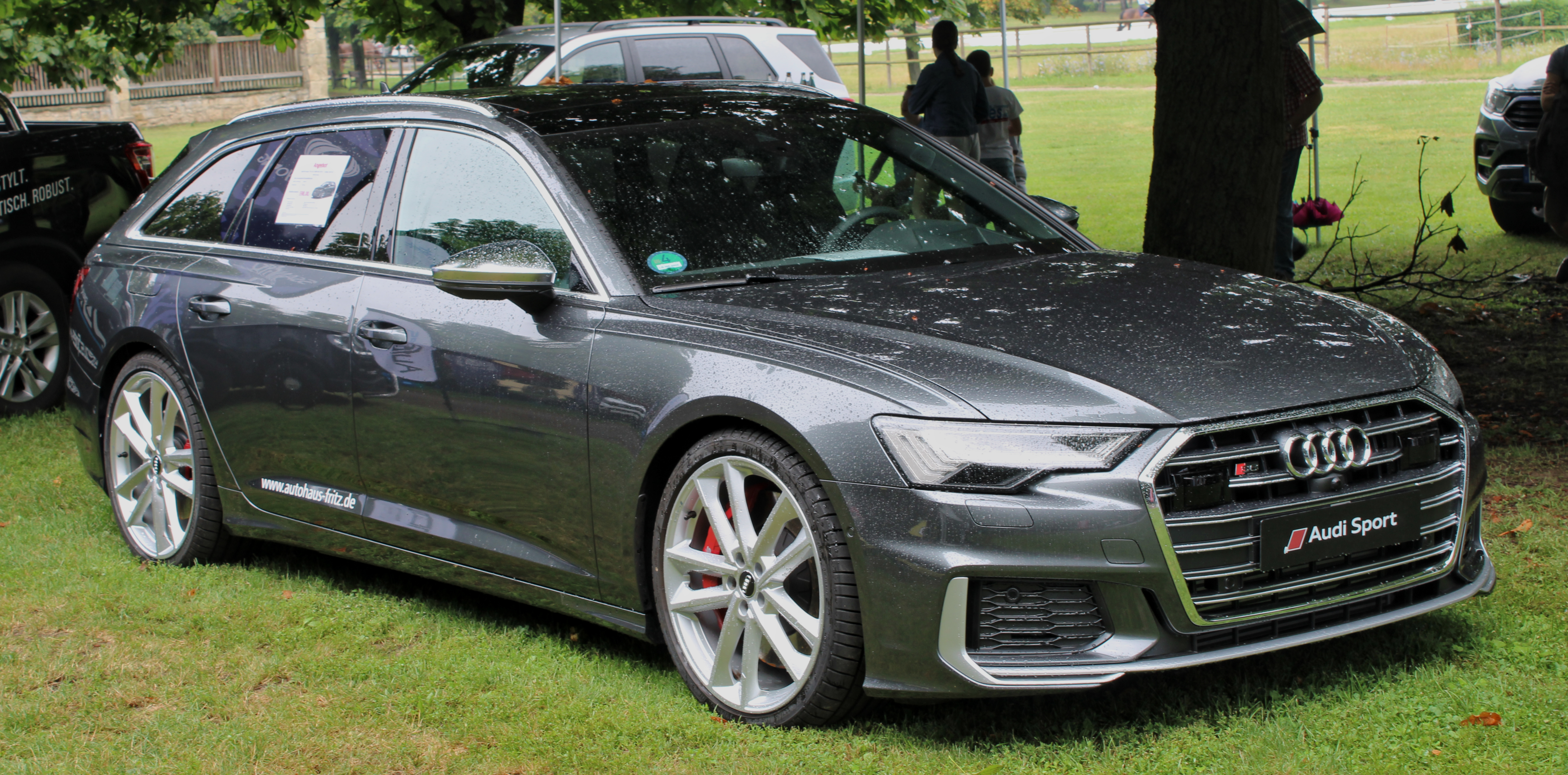 Audi S6 Avant at Schloss Monrepos 2019